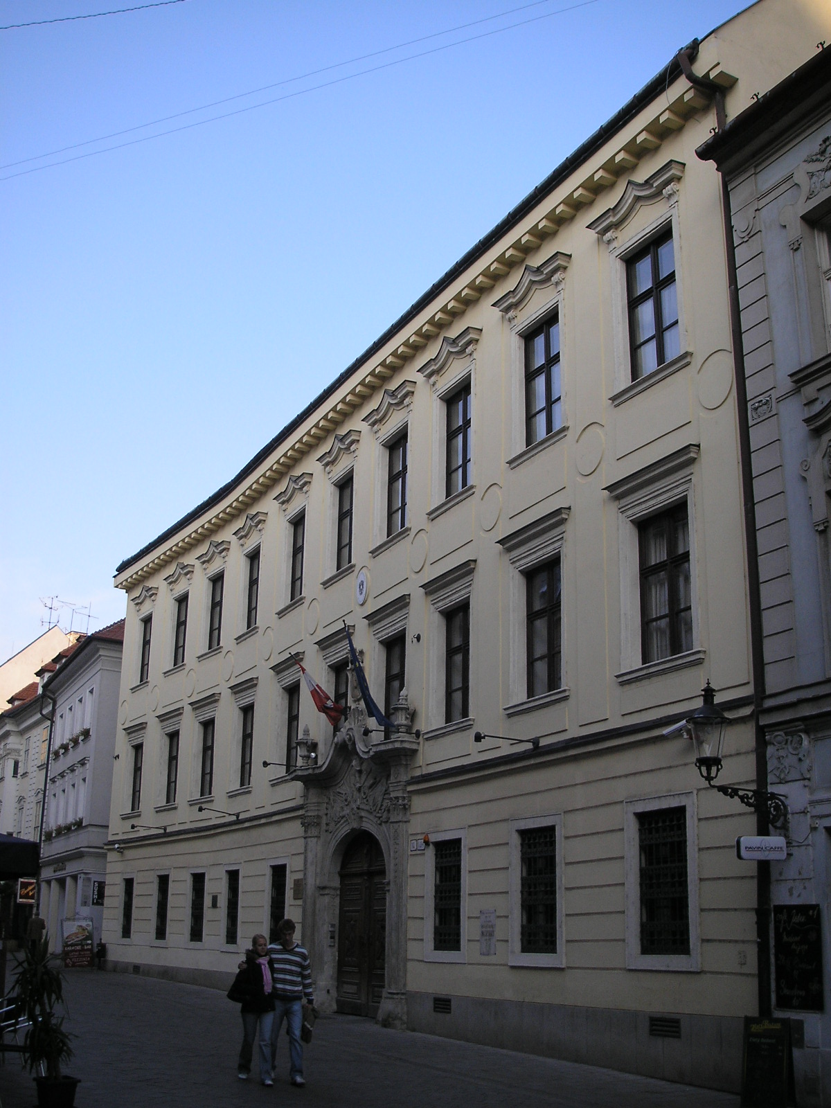 The Austrian embassy in Bratislava, Slovakia.